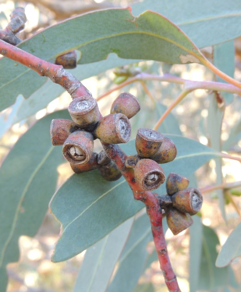 Fruit of Eucalyptus nortonii in Rob Roy Range Nature Reserve, in the hills to the east of Banks